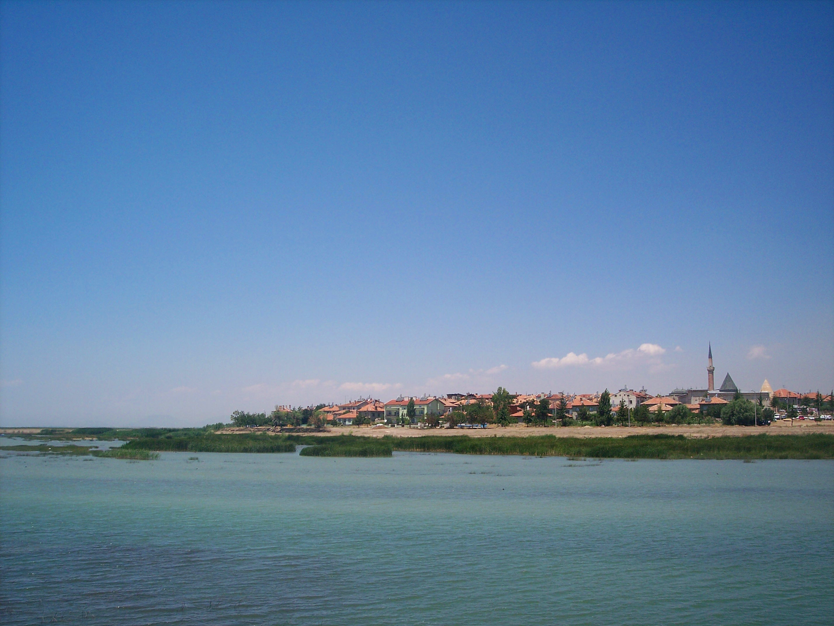 A view of Beyşehir district of Konya province of Turkey. The minaret on the right of the photograph belongs to Eşrefoğlu Mosque. The photograph is taken from Lake Beyşehir, one of the largest lakes in Turkey.